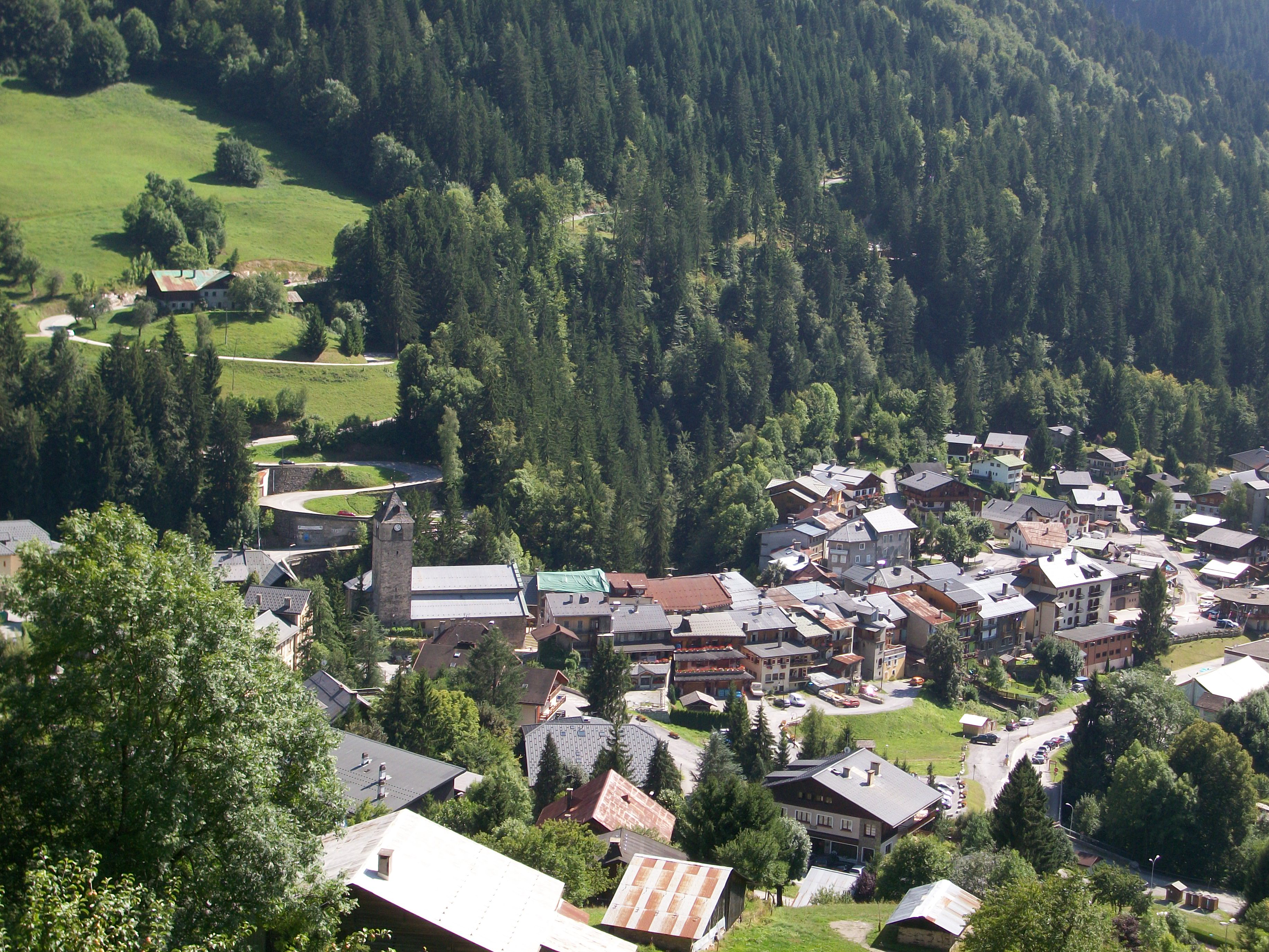 Overview of Flumet village